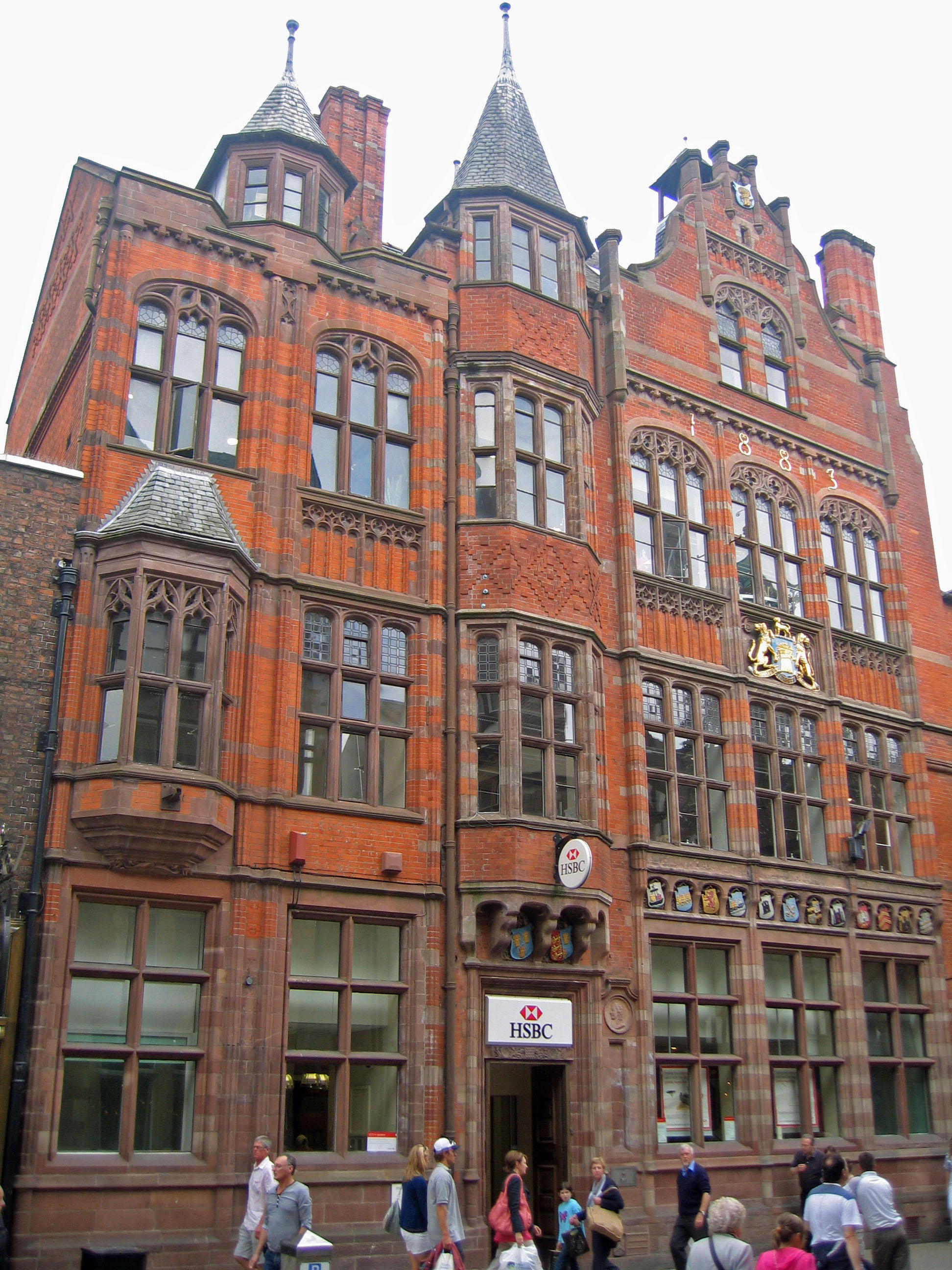 Photograph of the HSBC Bank, Eastgate Street, Chester, Cheshire, England